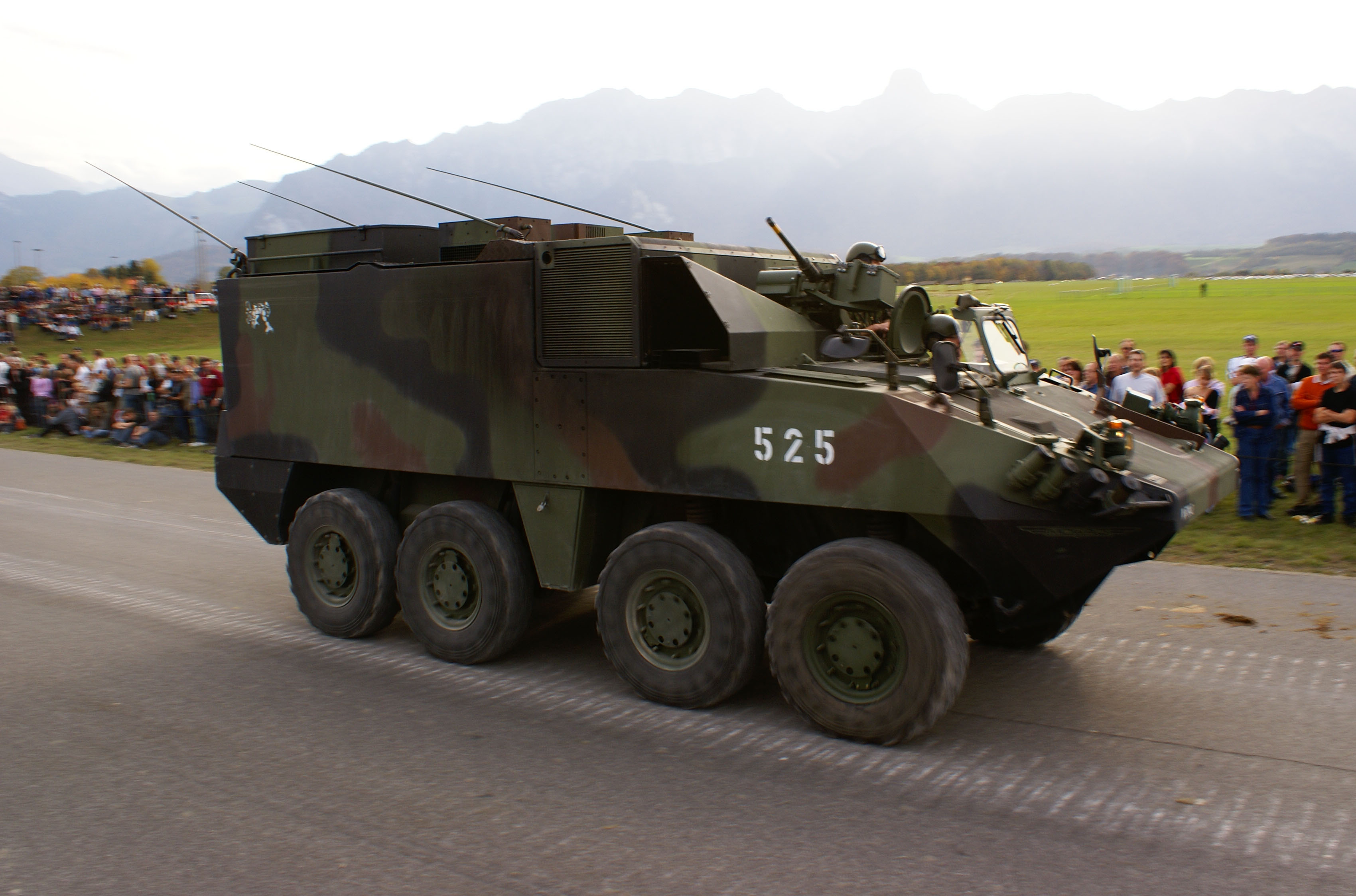 Swiss Army. MOWAG Piranha brigade command vehicle. Participating in the "Steel Parade" of the 2006 Army Days, Thun.